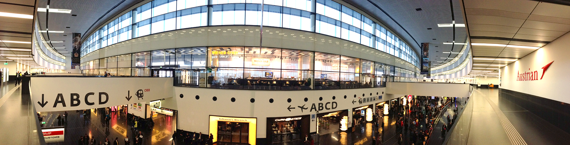 skylink landside 3